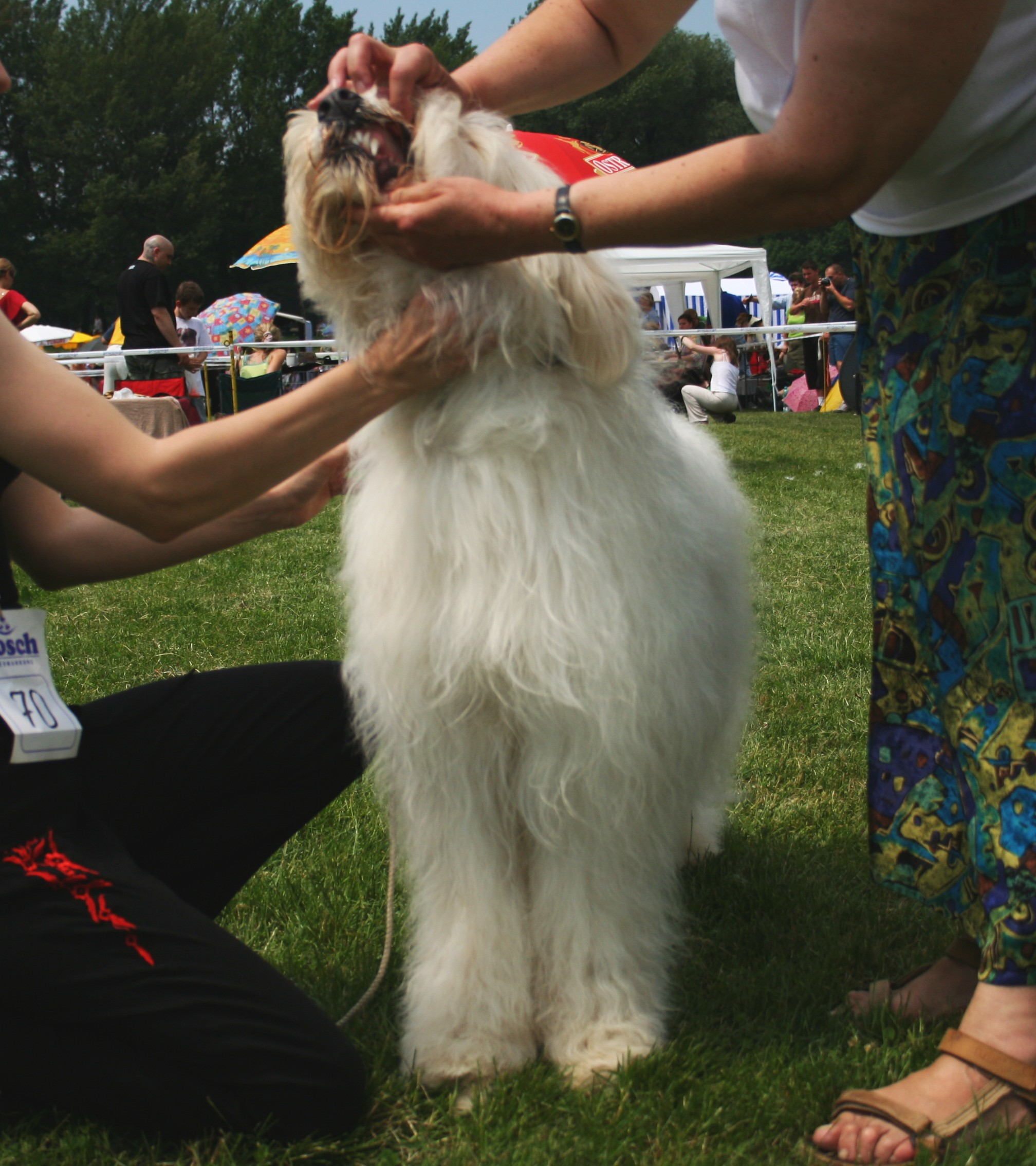 South Russian Ovchark during dog's show in Racibórz, Poland